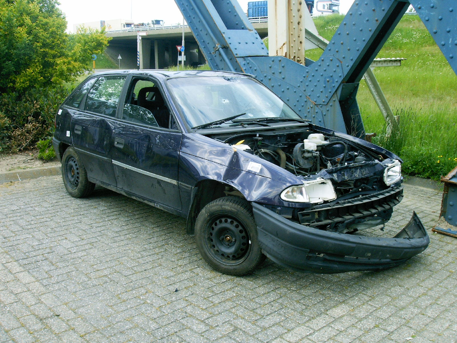 Damage to a car.